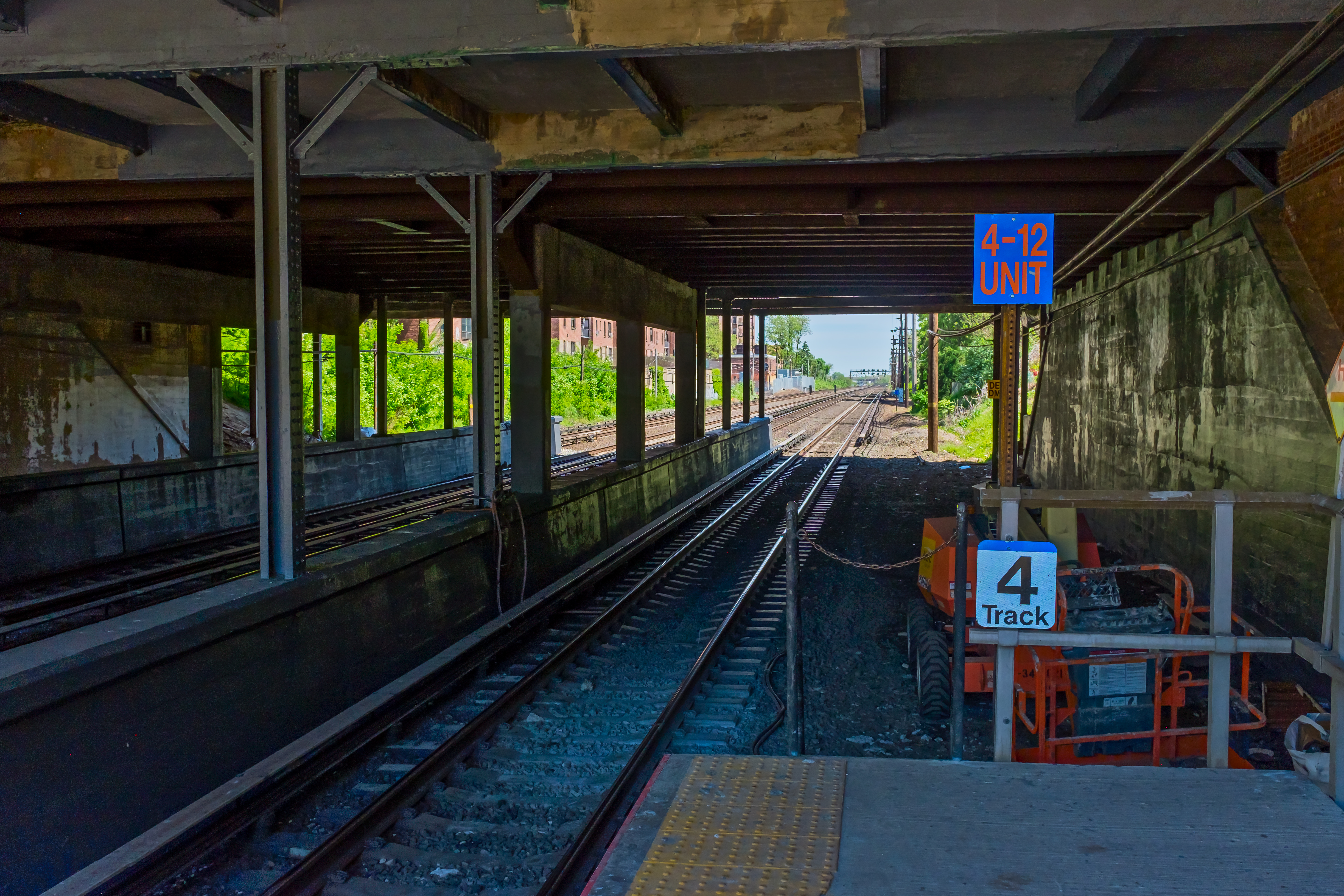 Kew Gardens LIRR station, looking east along main line.